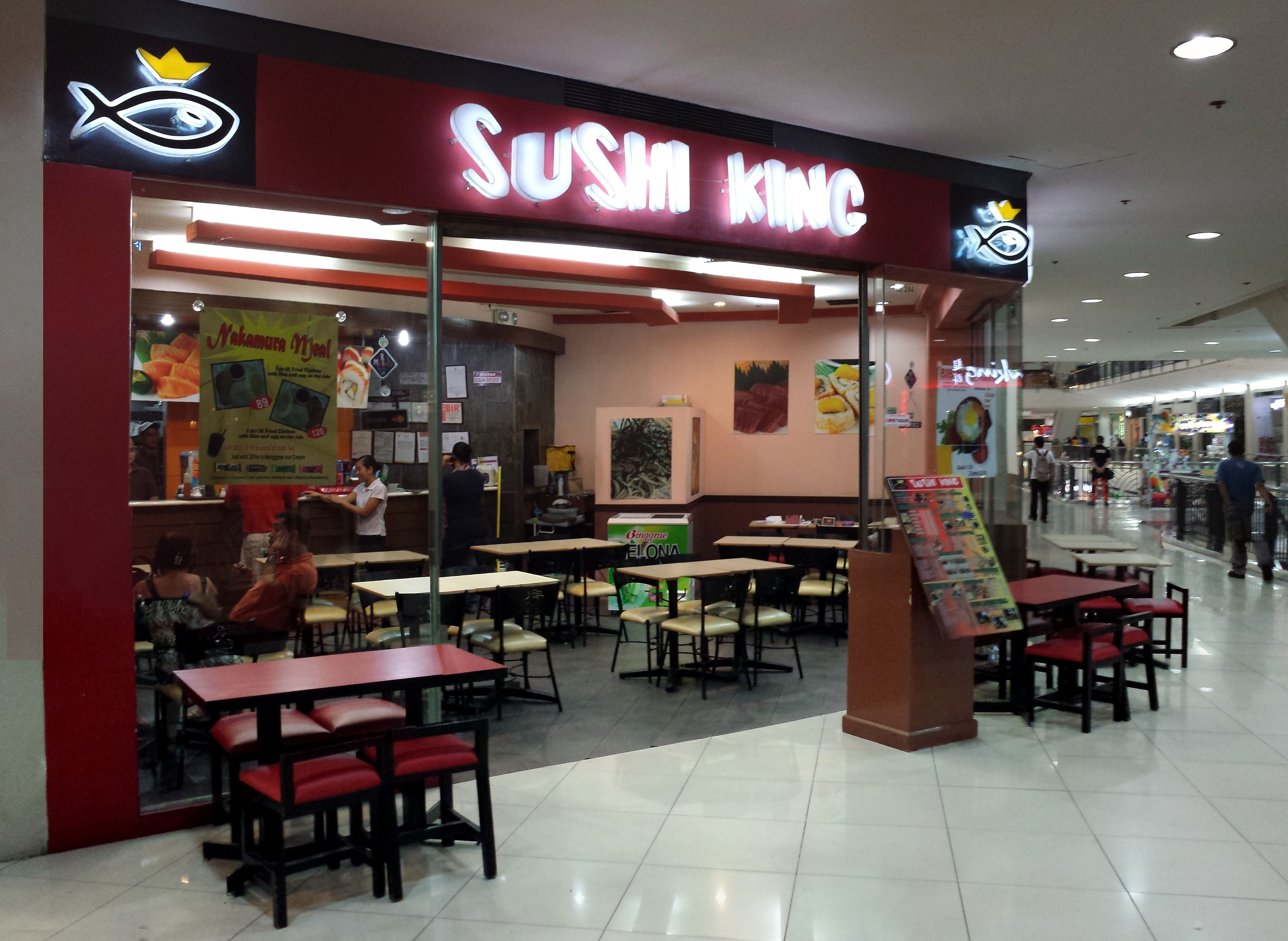 A Sushi King restaurant in the Market! Market! mall in Bonifacio Global City, Metro Manila, Philippines.